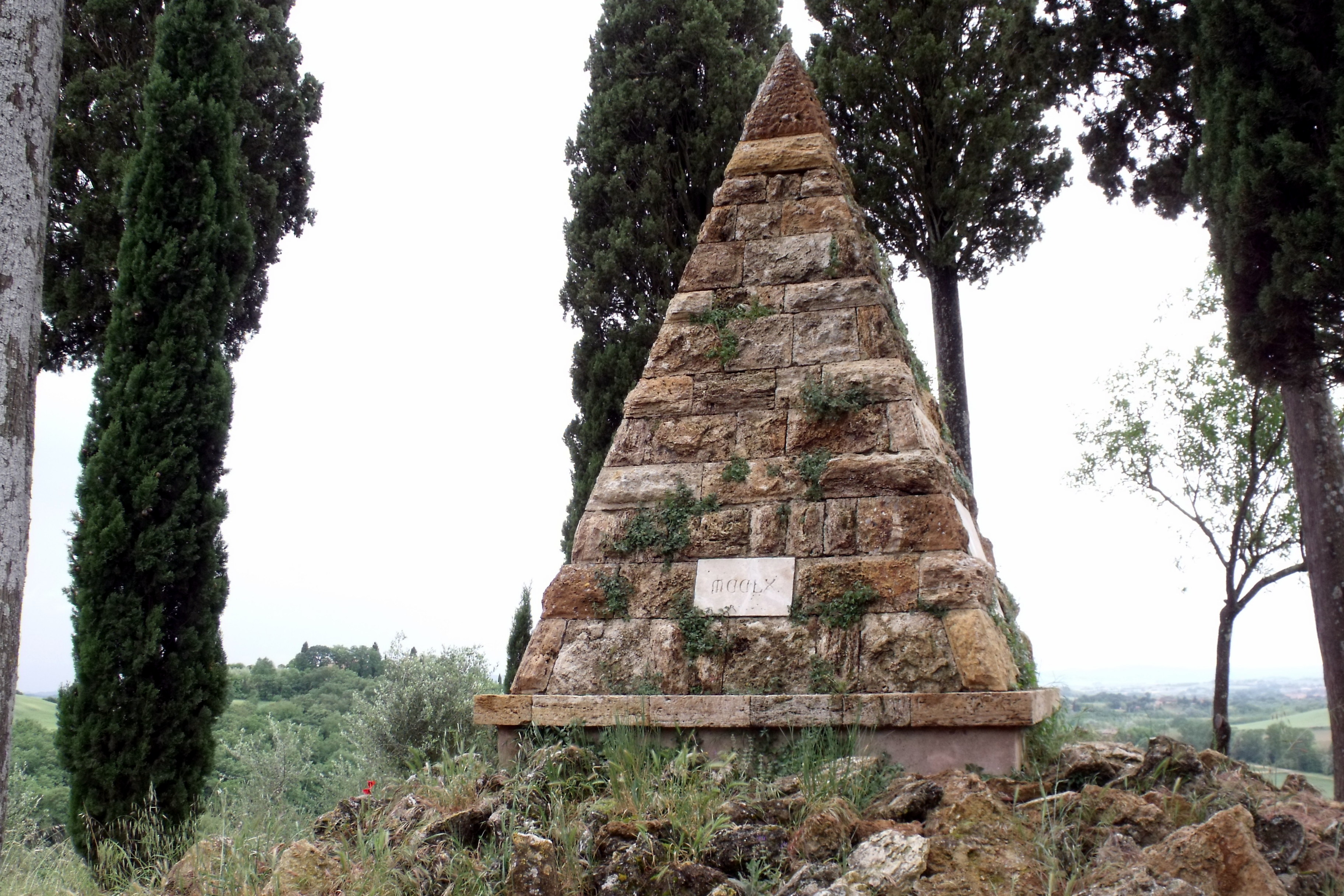 Piramide di Montaperti (Pyramid of Montaperti), War memorial to the battle of Montaperti, near Montaperti (Montapertaccio), Castelnuovo Berardenga, Province of Siena, Tuscany, Italy